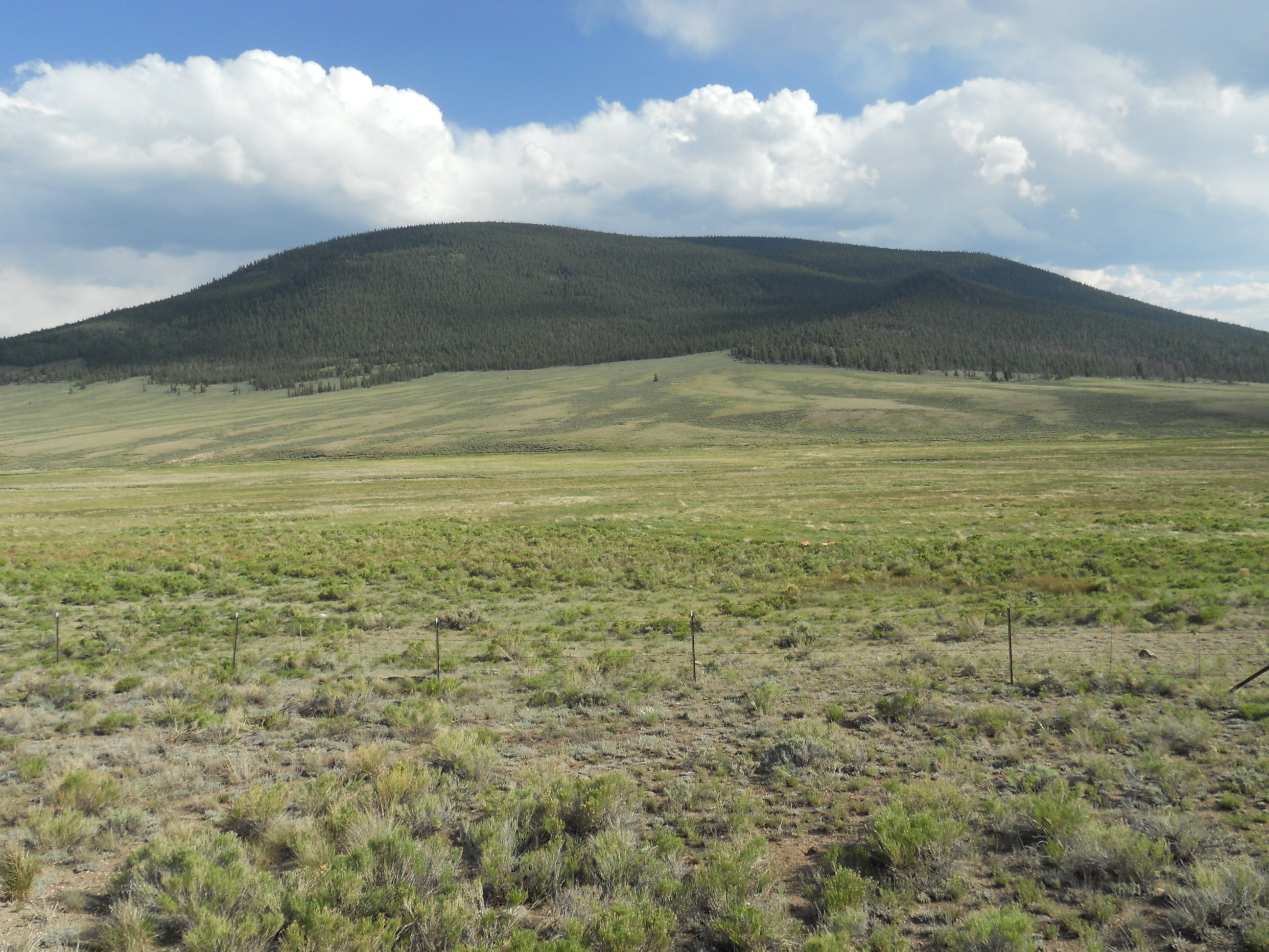 Cochetopa Dome, elevation 11,132 ft (3,393 m), viewed from the north. This lava dome is located in the San Juan Mountains and within the Gunnison National Forest.